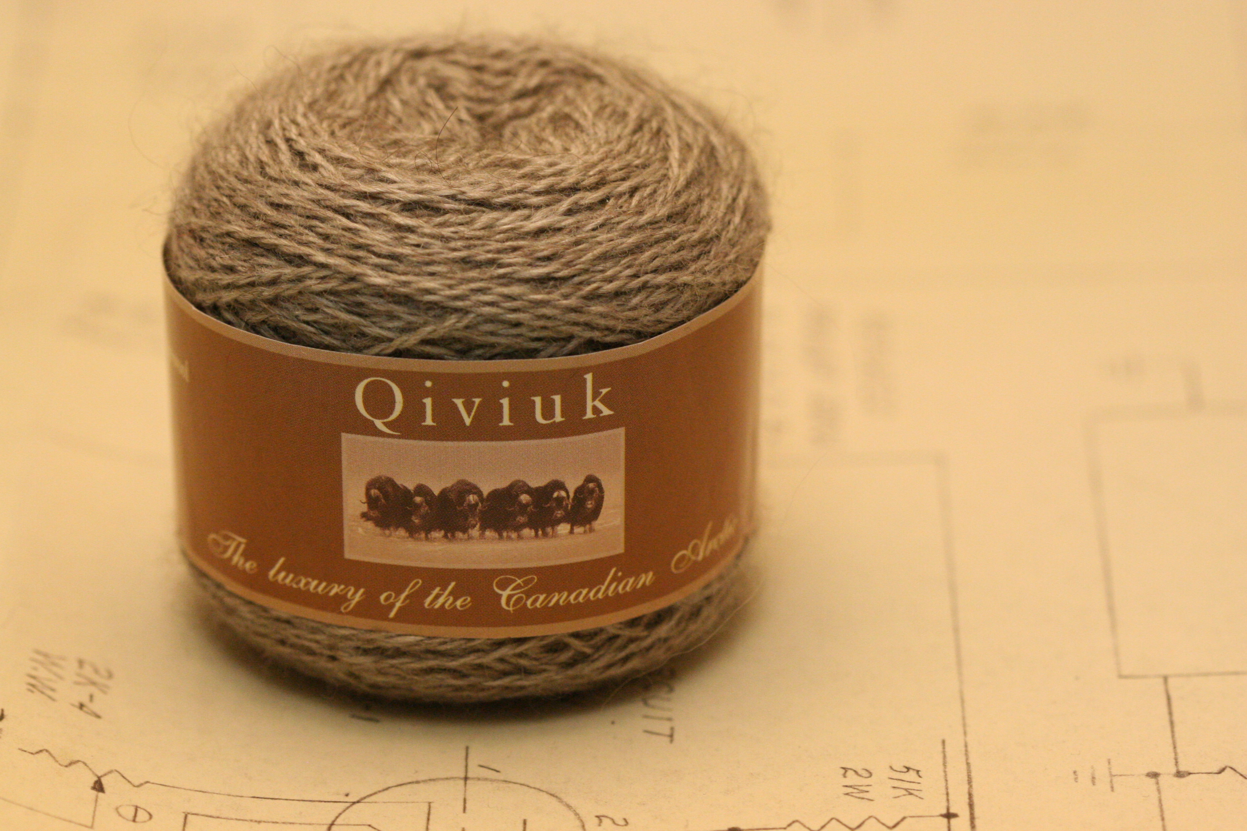 Qiviuk